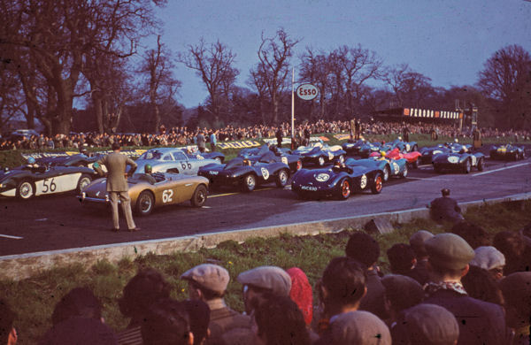 Oulton Park - marshalling the starting grid 1957 By the look of those oak trees it was springtime - - my guess, Easter Monday, 22 April, 1957. The photographer was crossing the track by way of a footbridge, which is missing from today's aerial maps. If I remember correctly the owner/driver of the Mercedes ( 66 ) was Brian Naylor of Stockport.